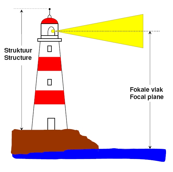 An illustration showing the difference between the height of the structure and the height of the focal plane of a lighthouse.